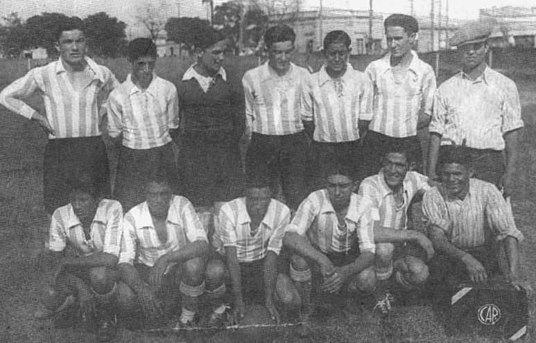 Racing de Córdoba team in 1932.